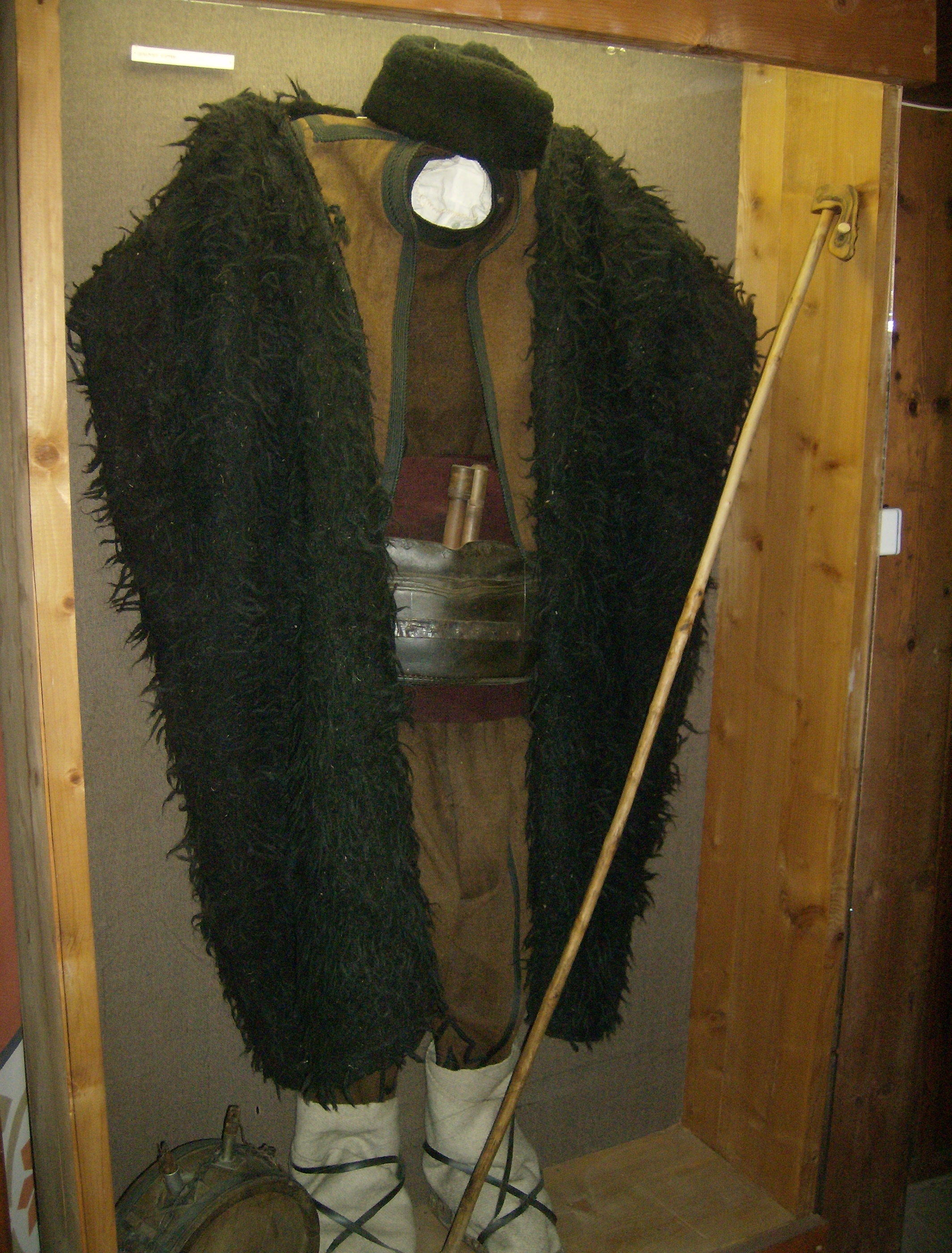 Shepherd costume, Ethnographical museum, Batak